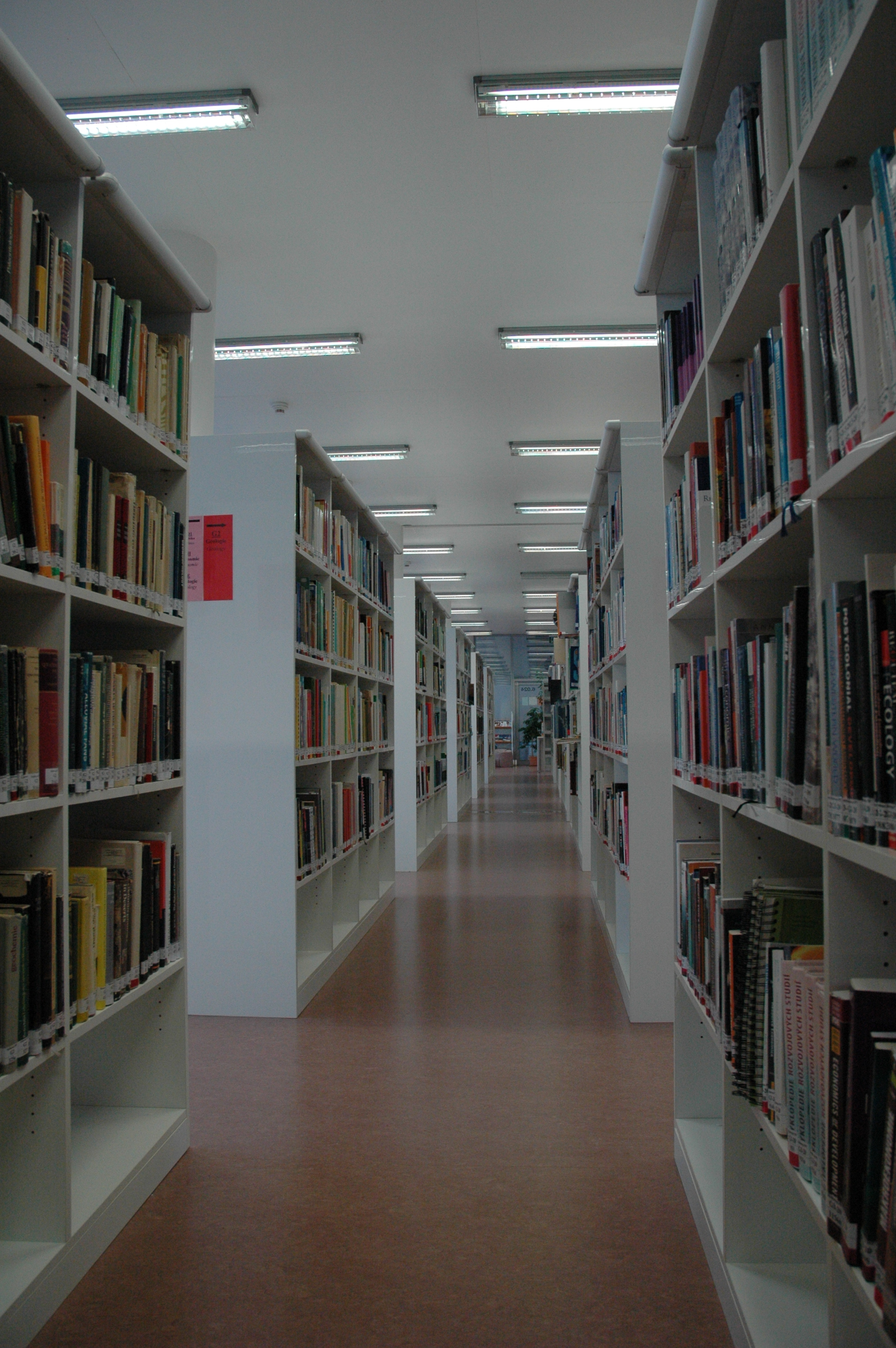 Natural Science Faculty Library, Palacký University in Olomouc, Czech Republic.